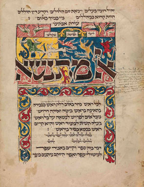 Page from the Tripartite Mahzor, early 14th century, Germany